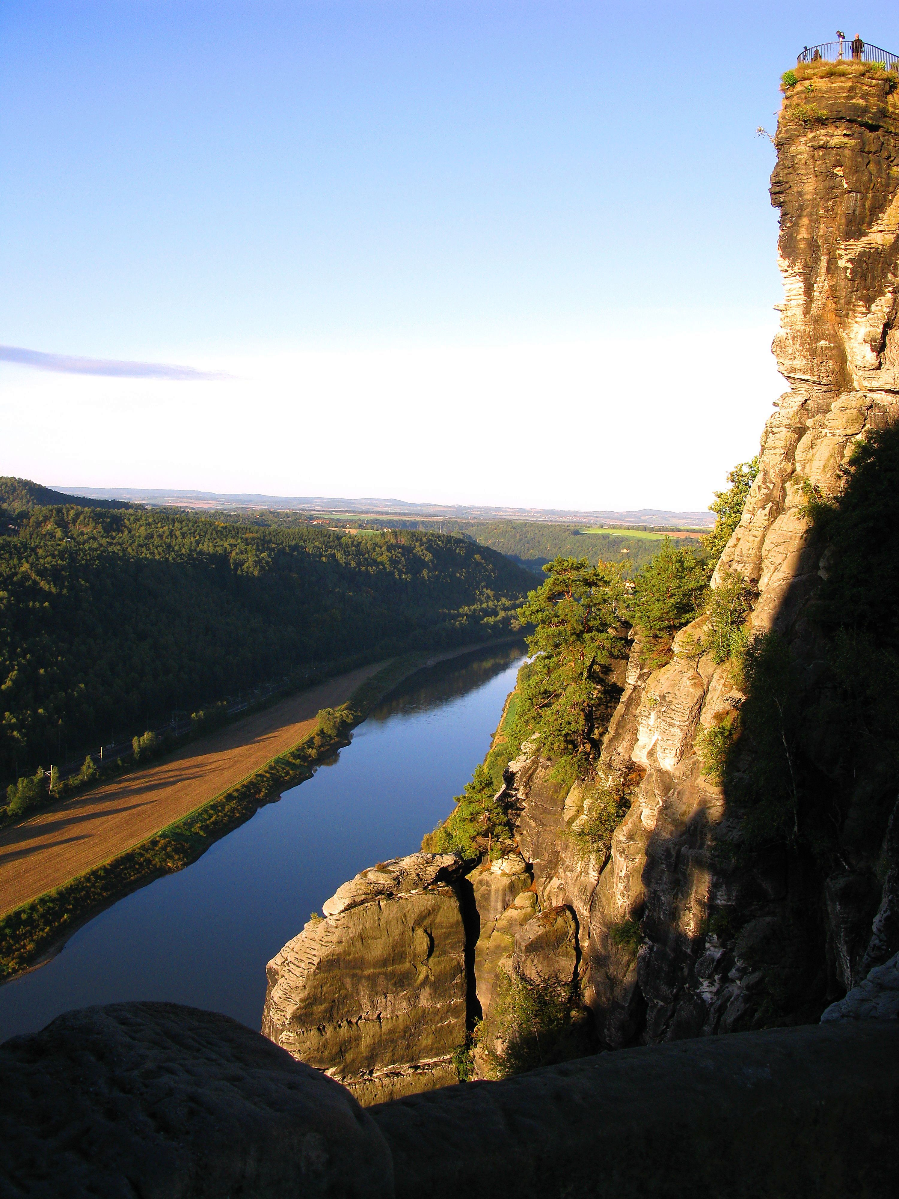 View on Bastei